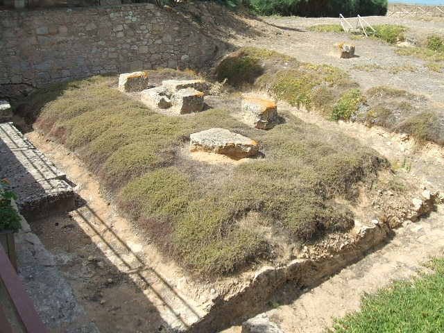 Camarina archaeological site : Temple of Athena, remains of a part of the foundations